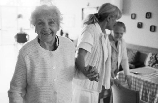 Resident of a nursing home in Munich (Germany)